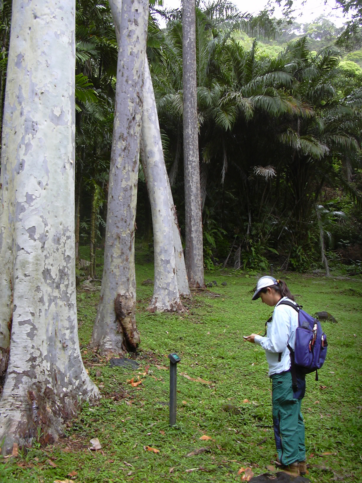 Corymbia citriodora (habit with Kim). Location: Maui, Keanae Arboretum